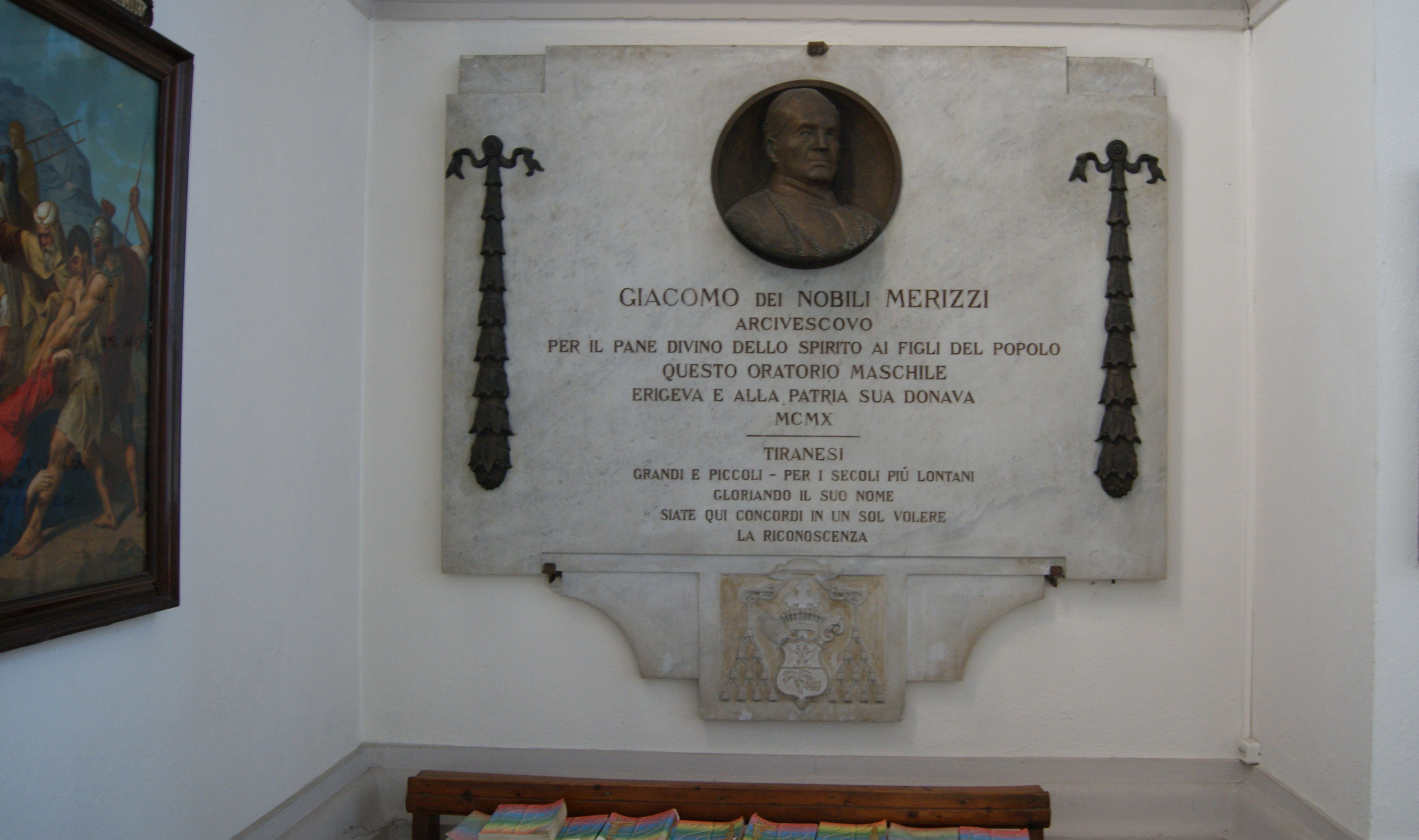 Chiesa del Sacro Cuore (Church of the Sacred Heart) in Tirano. Memorial board for Giacomo Merizzi in the church.